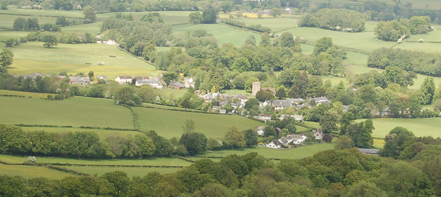 Llanfrynach. The village and surrounding pastures as seen from the path on the way to Clawdd Coch.